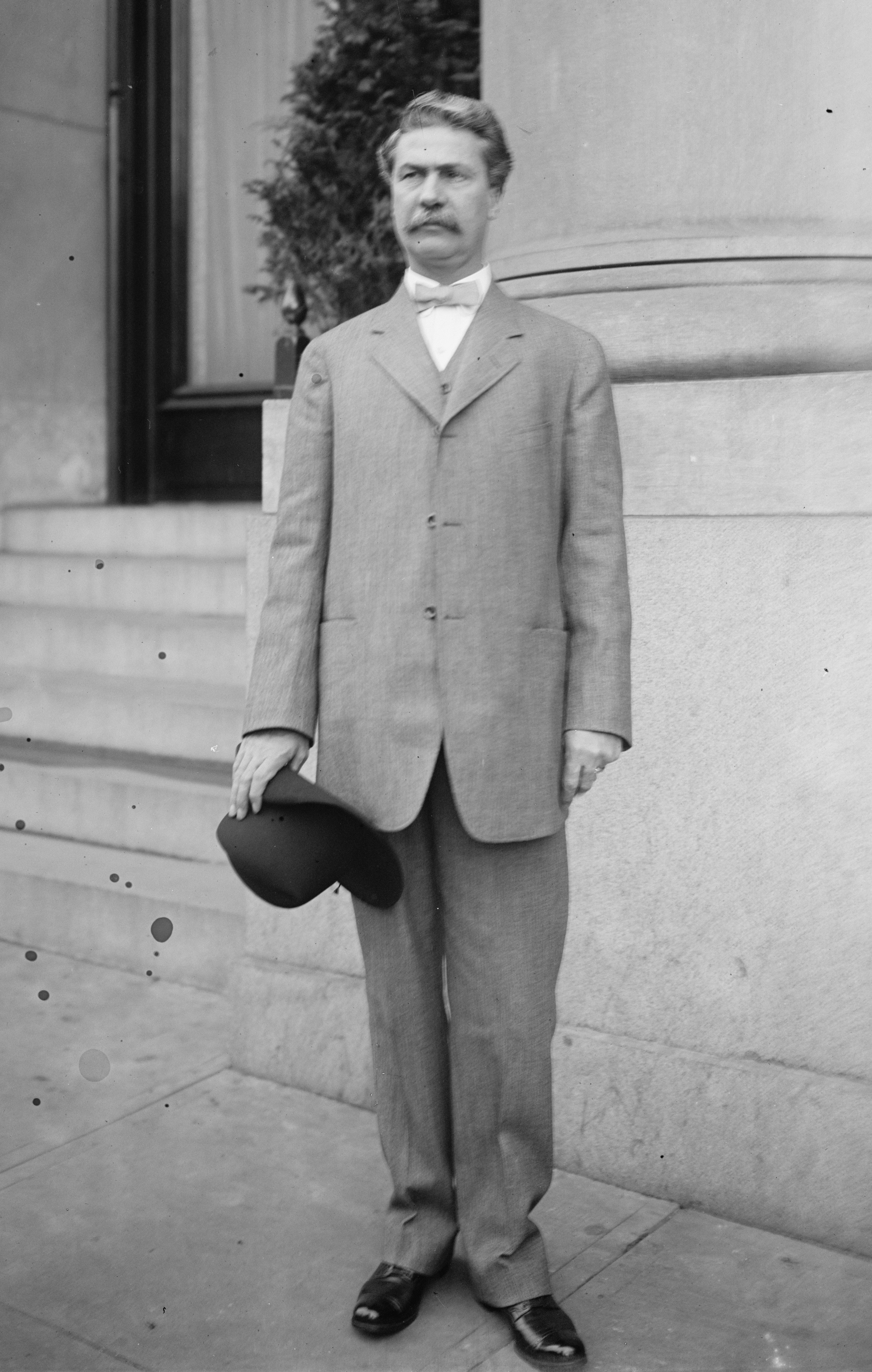 Coleman Livingston Blease, US Senator from South Carolina and Governor of that state